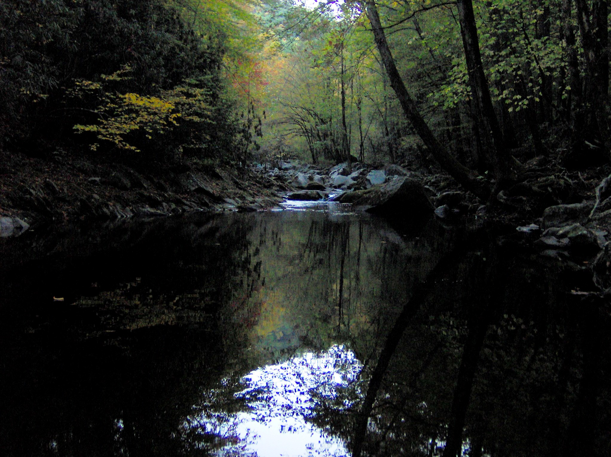 Middle Prong of Little River in the Great Smoky Mountains of East Tennessee. This section is a half-mile or so above the Tremont Institute.